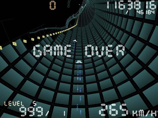 Screenshot of the freeware video game Torus Trooper